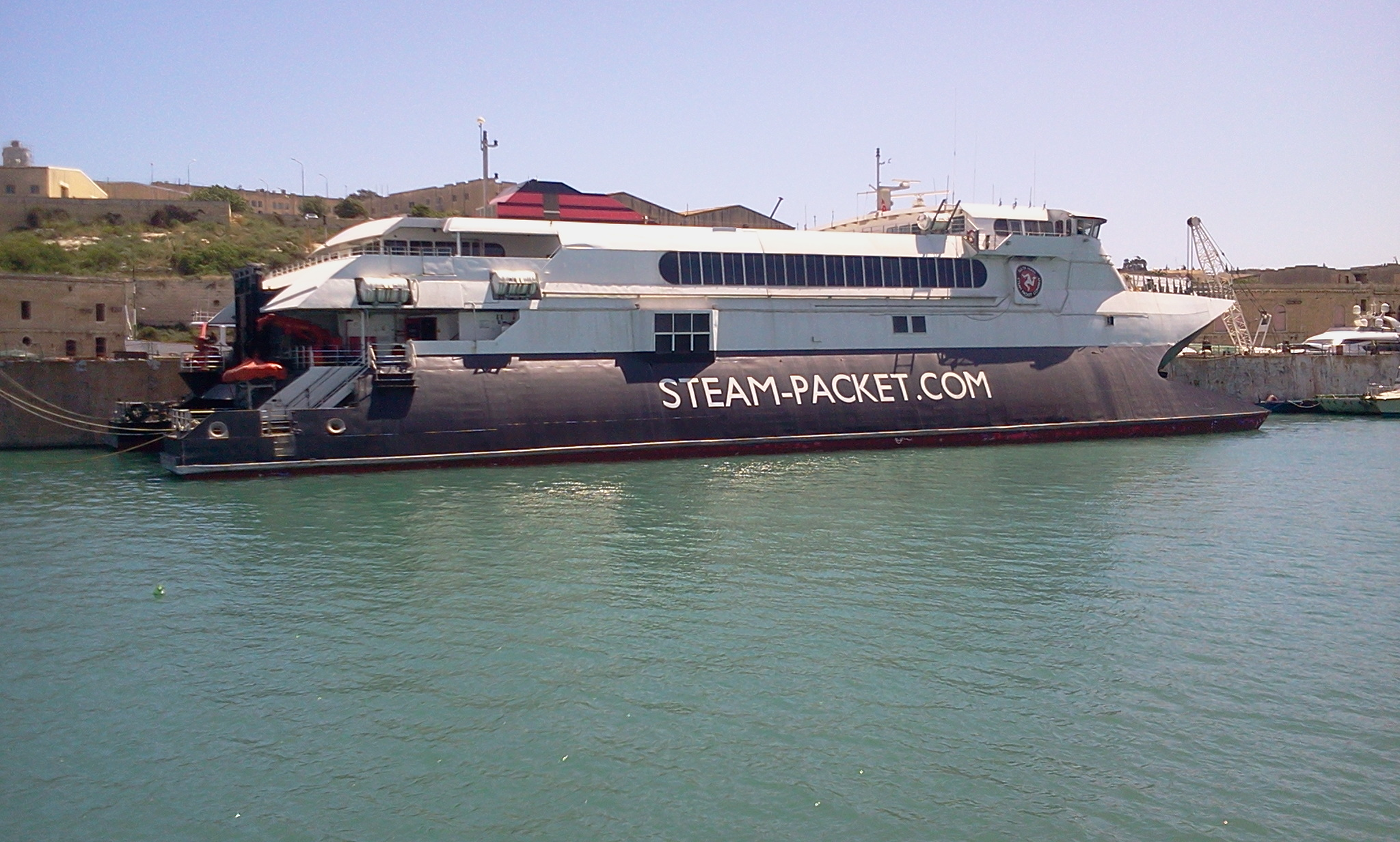 HSC Snaefell (seacat) laid up in Valletta, Malta Apr 2012.jpg